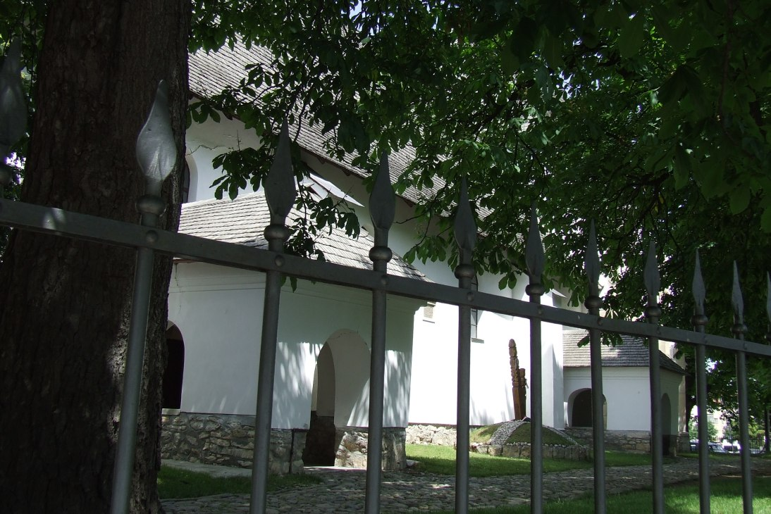 View from city of Huedin, Cluj County, Romania